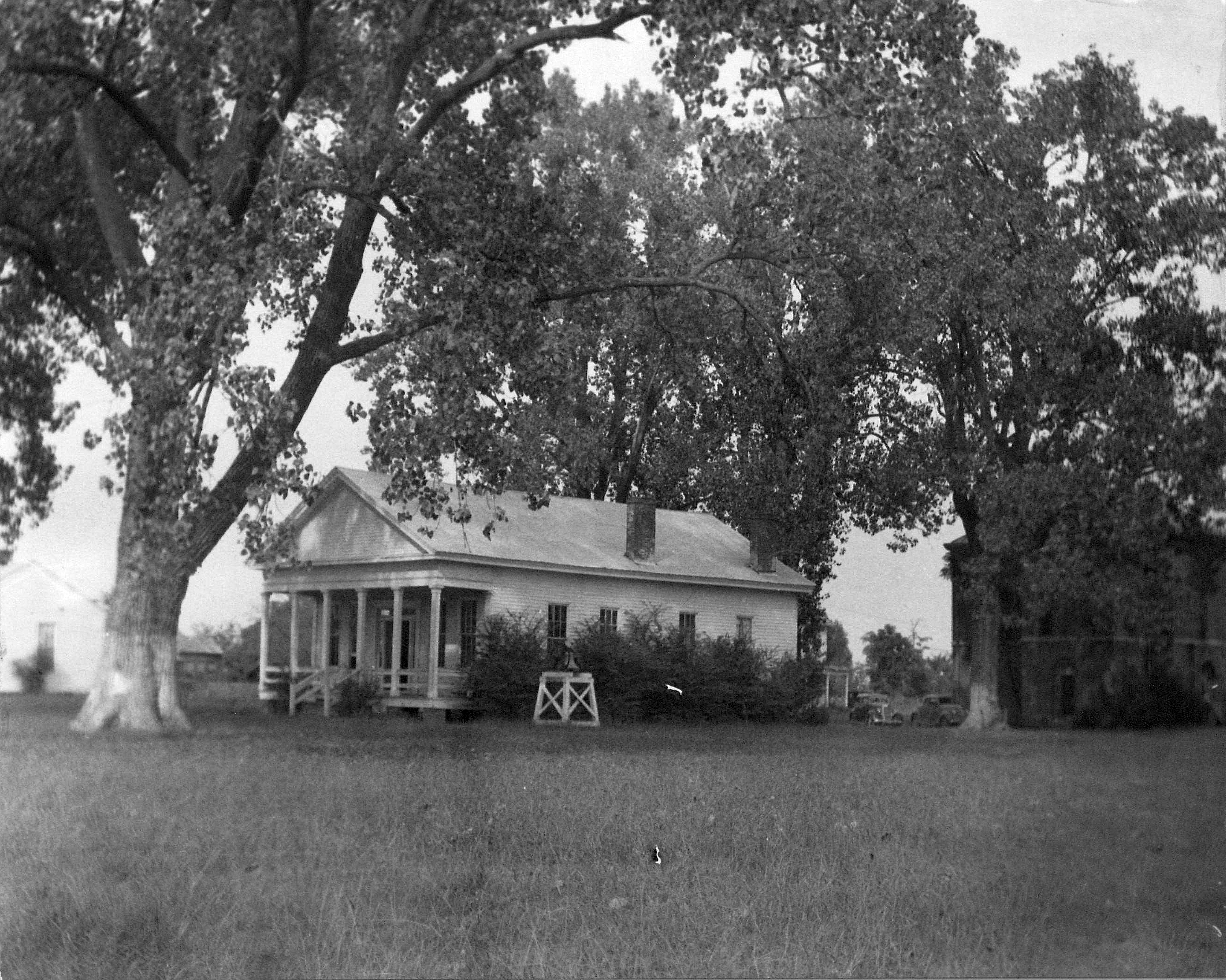 Historic photo of the Court House in Issaquena County, Mississippi.